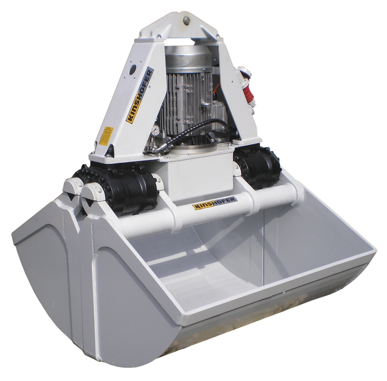 Motor grab for gantry cranes with double HPXdrive cylinderless grab drive unit by Kinshofer GmbH in Germany